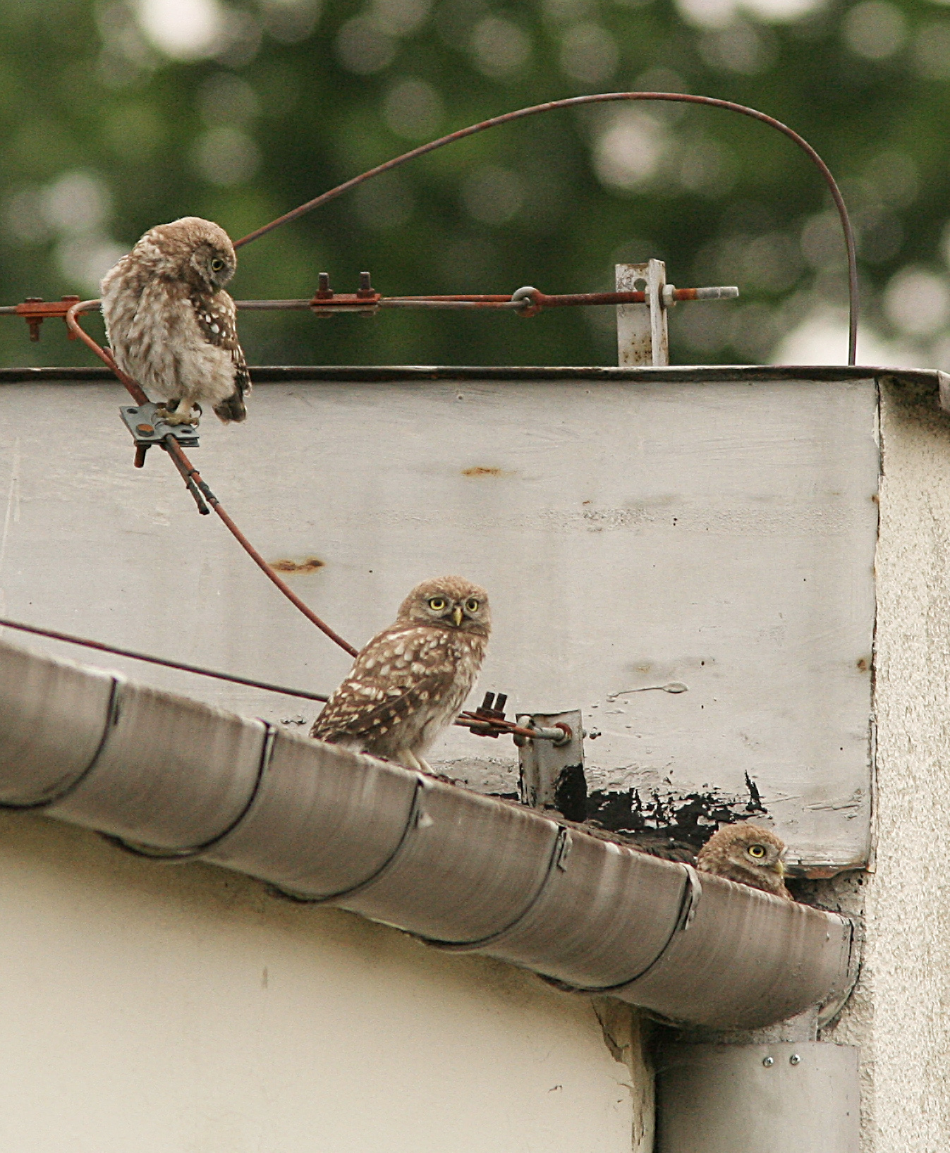 Athene noctua, Warsaw, Poland 2007